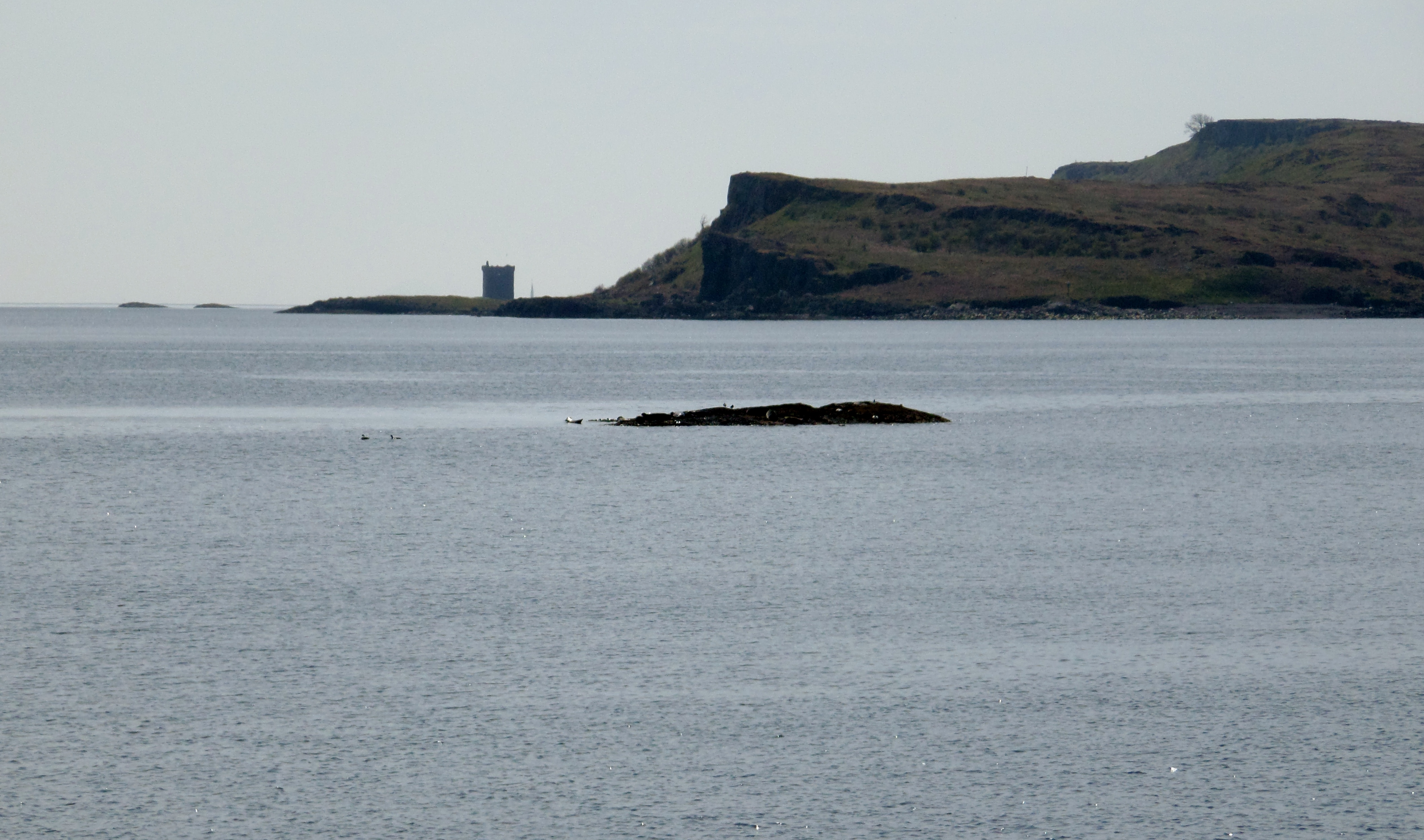 Little Cumbrae and the its castle ruins, North Ayrshire, Scotland